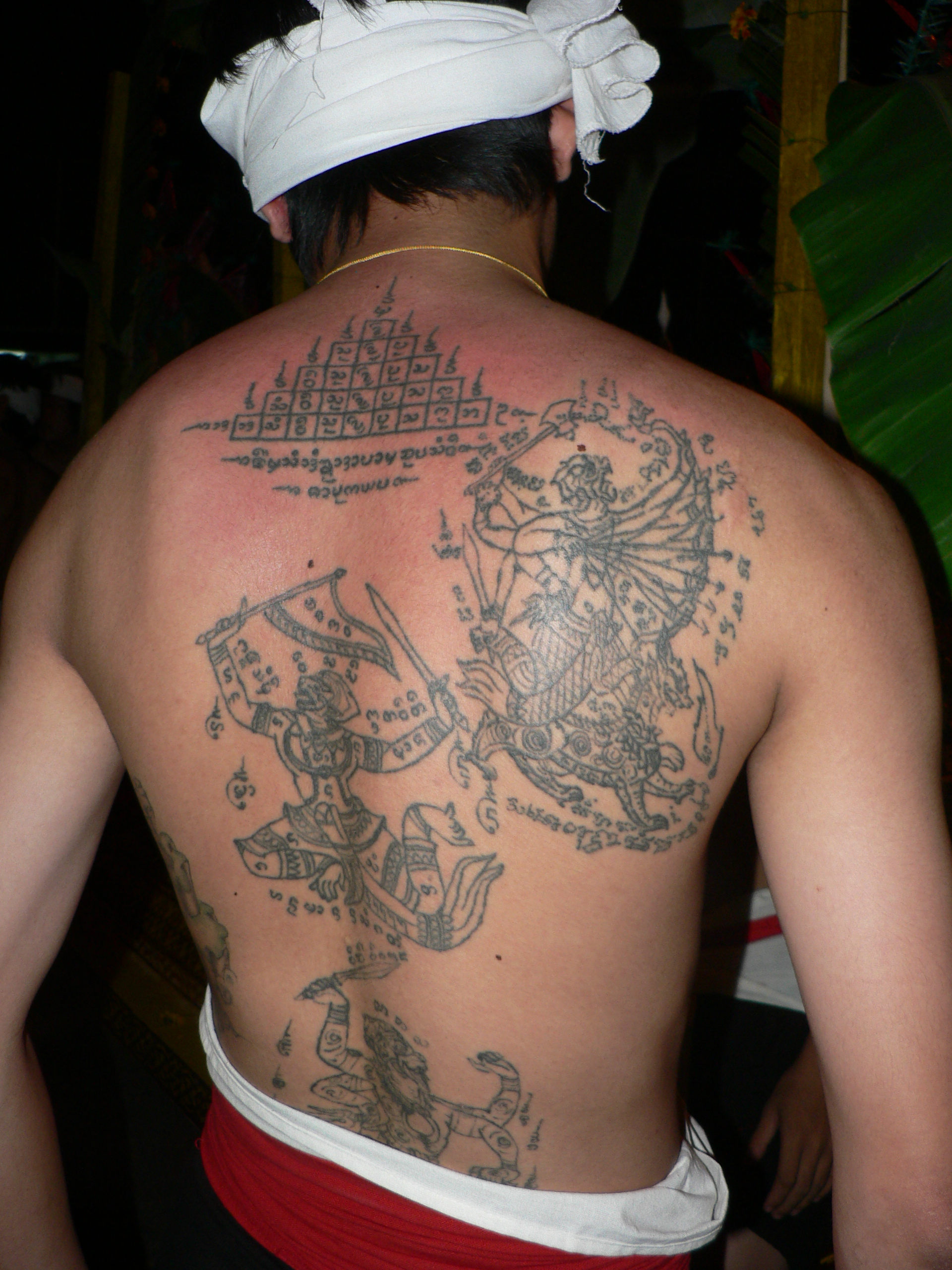 Thai tattoos. Chiang Mai 2005